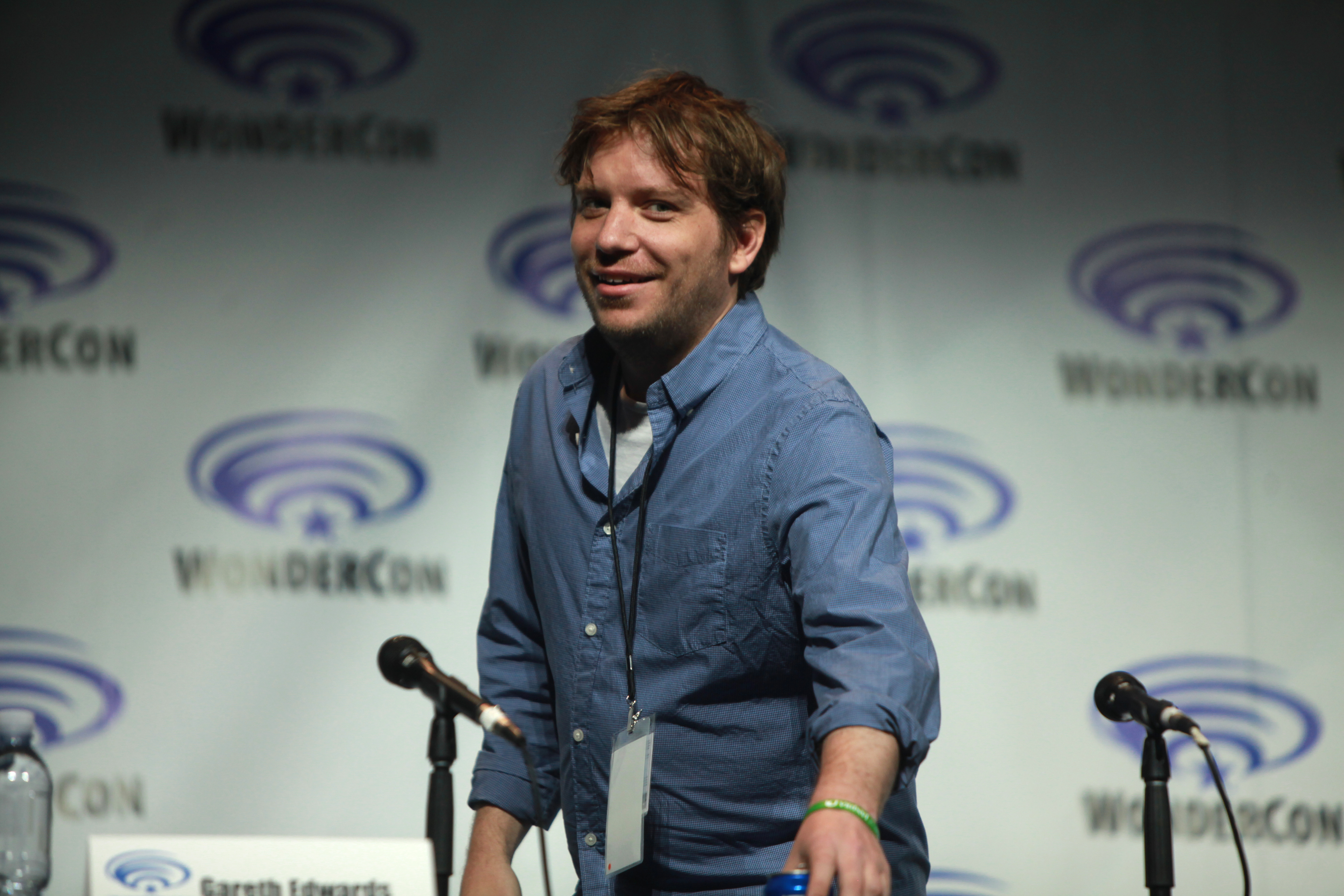 Gareth Edwards speaking at the 2014 WonderCon, for "Godzilla", at the Anaheim Convention Center in Anaheim, California.